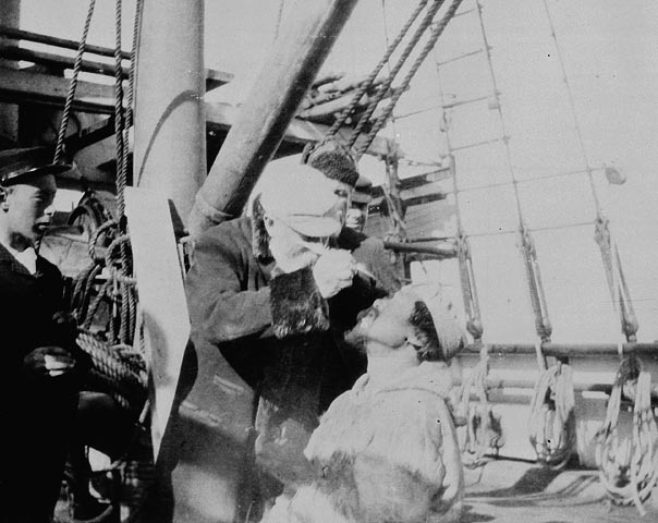 Dr. Robert Bell aboard S.S. Diana, moored near Ashe Inlet, NWT, during the Wakeham Expedition, in 1897. The man on left is H.T. Ford, the interpreter.